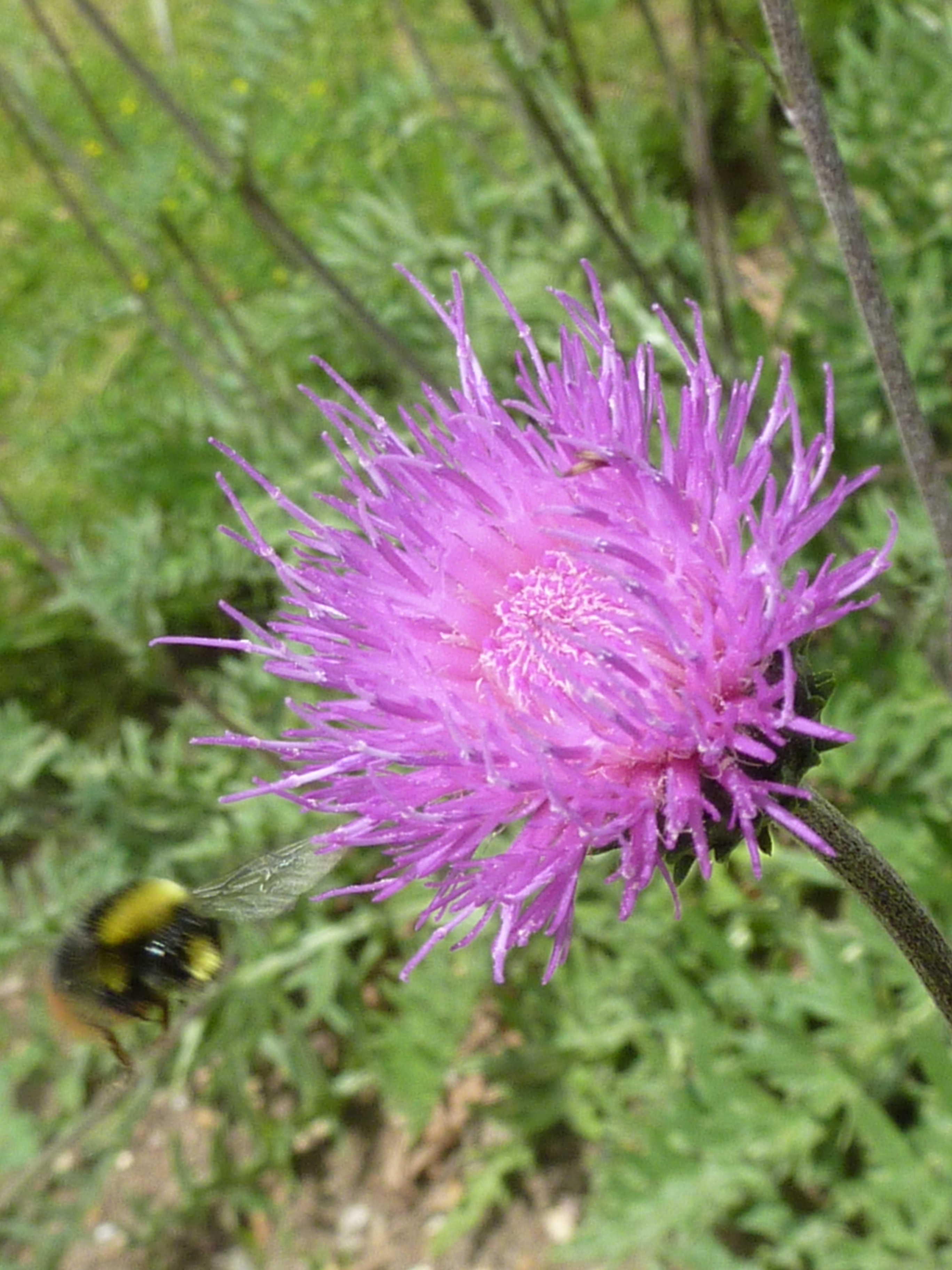 Taken in the Cambridge University Botanic Garden